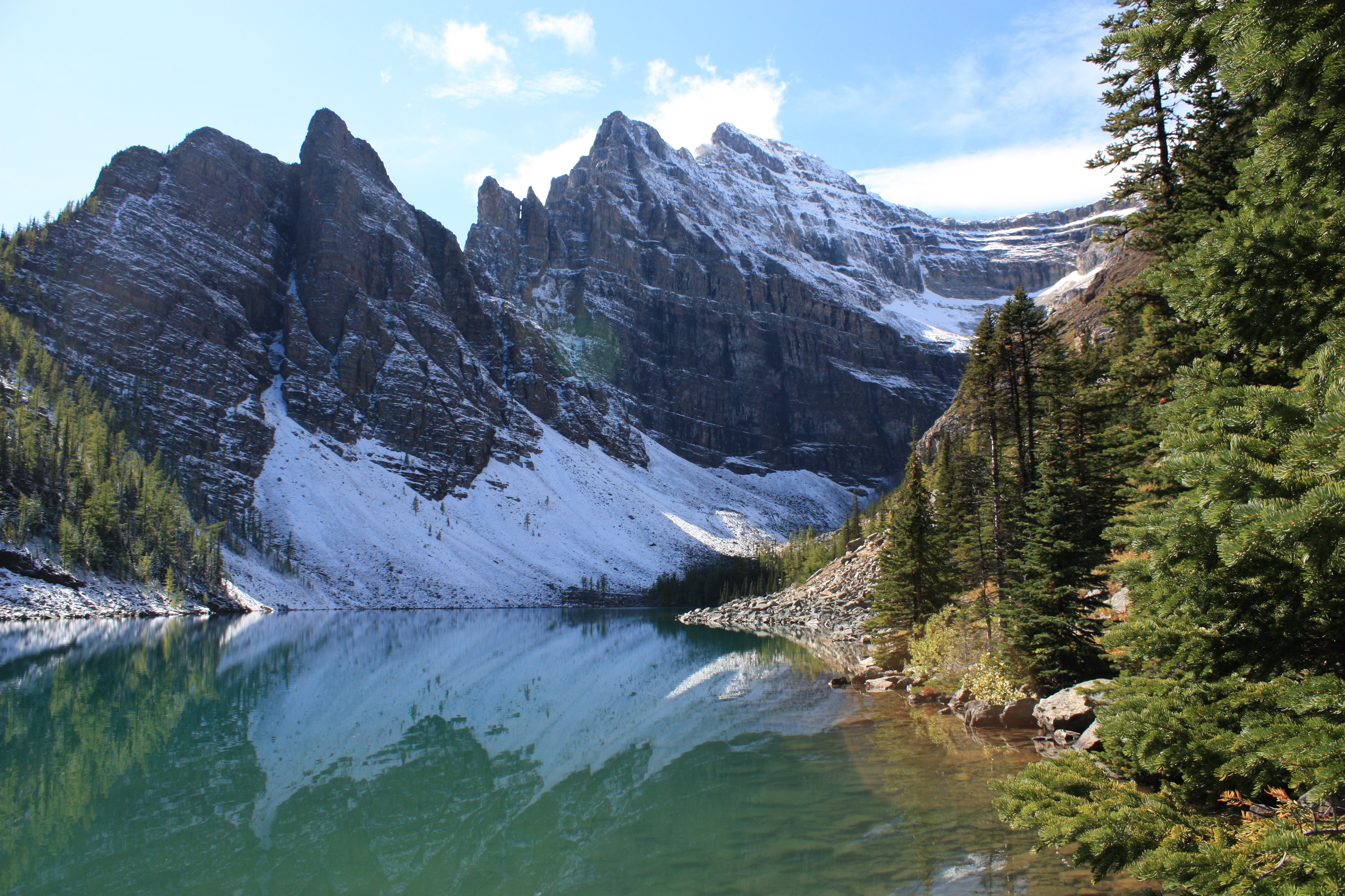 Lake Agnes near Lake Louise @ Banff National Park, Canada